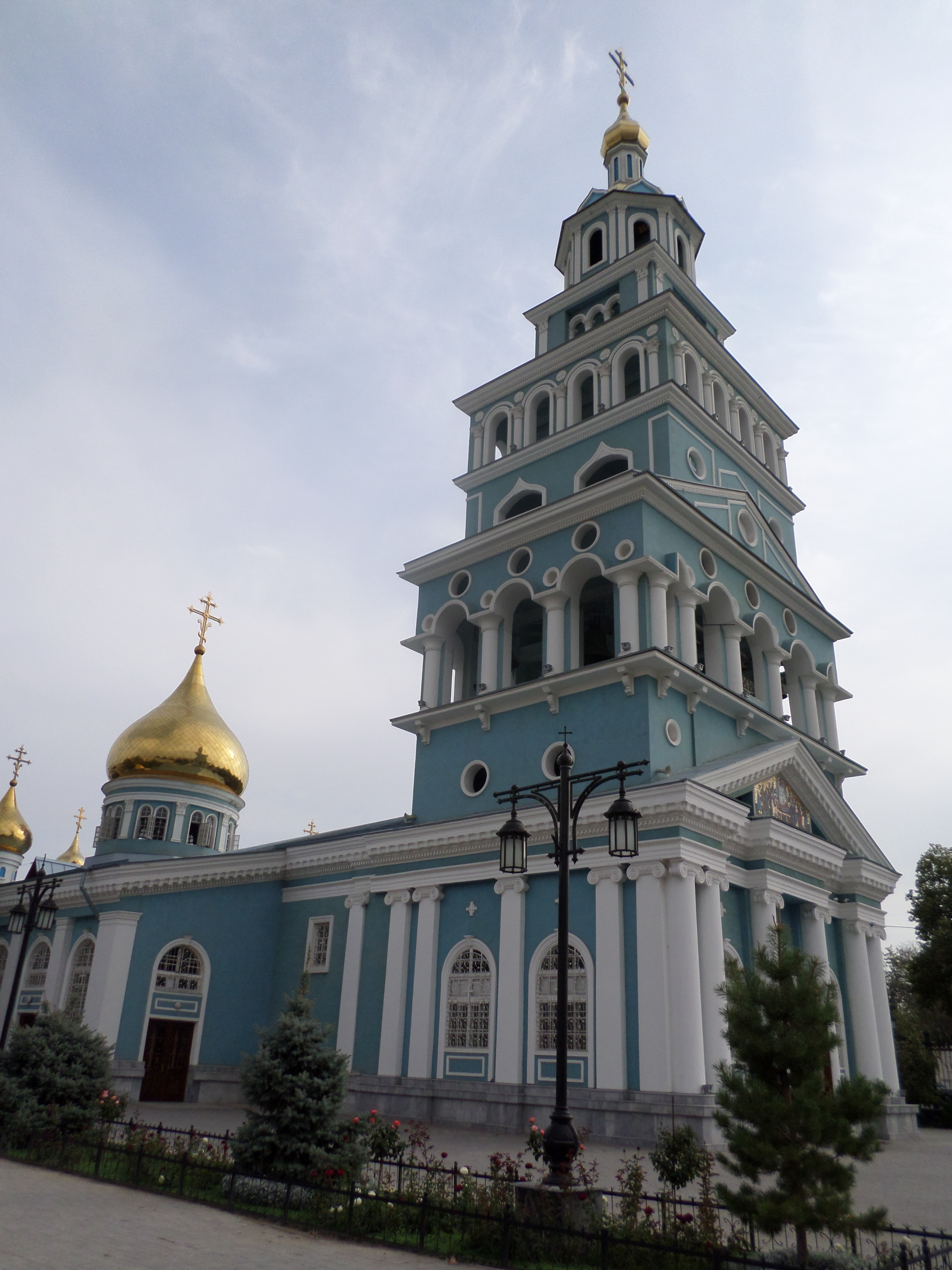 Cathedrale de la Dormition de Tachkent